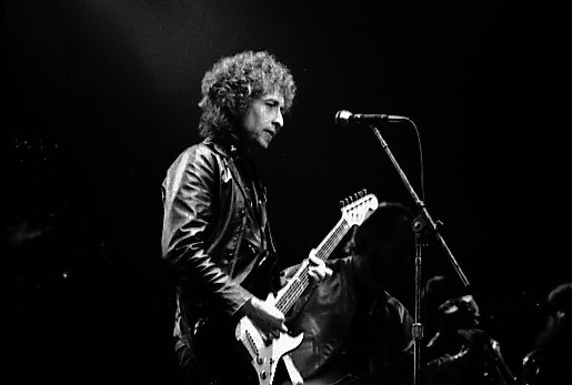 Bob Dylan at Massey Hall, Toronto, April 18, 1980 Photo by Jean-Luc Ourlin